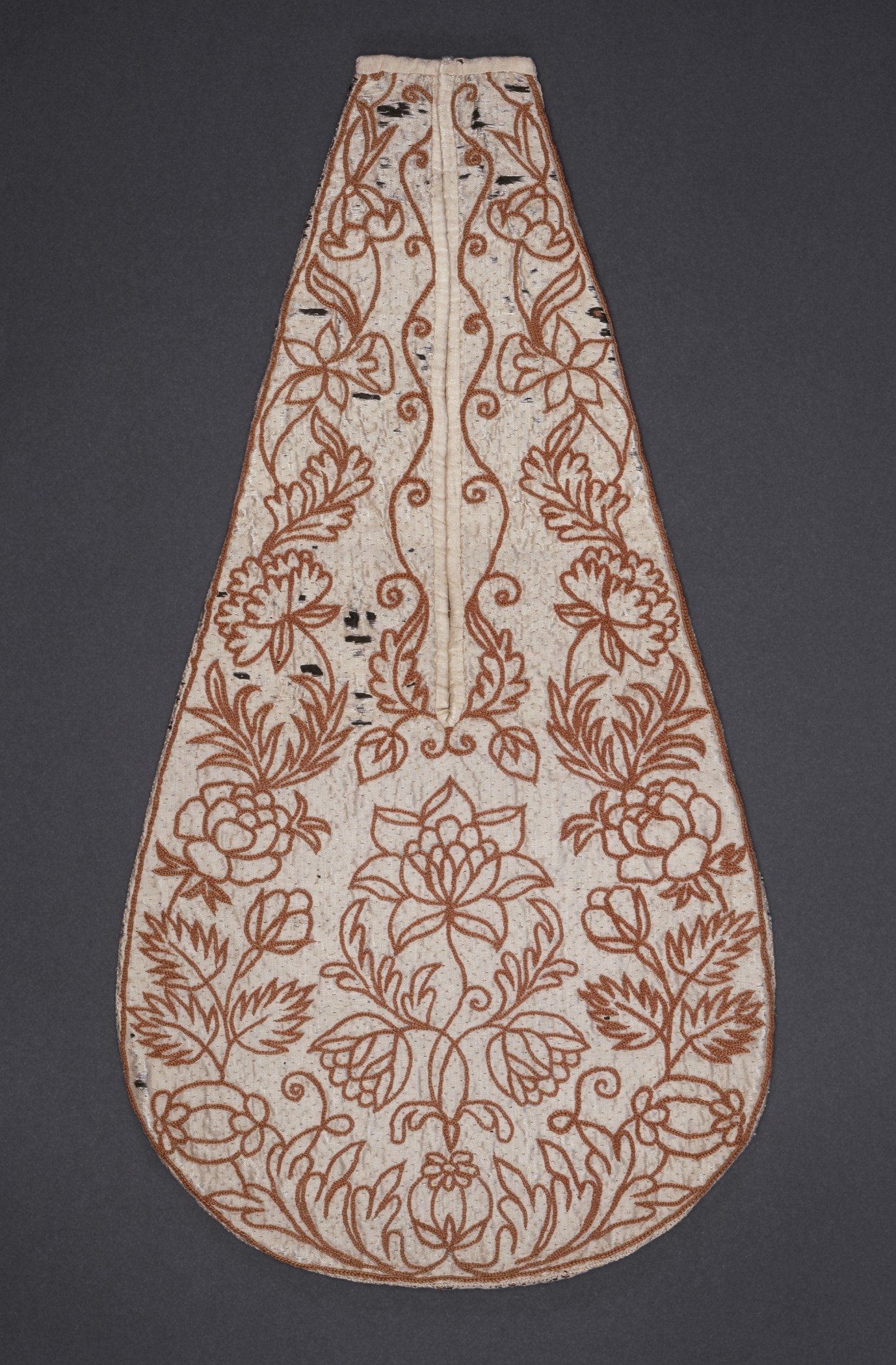 England, mid-18th century Costumes; Accessories Silk, linen Gift of Dr. Alessandro Morandotti (M.59.21.1a-b) Costume and Textiles